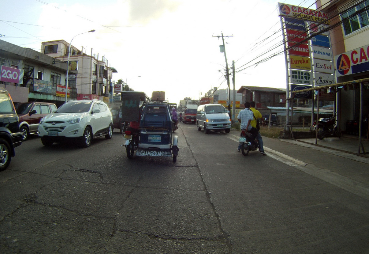 Centro West, Santiago City, Philippines